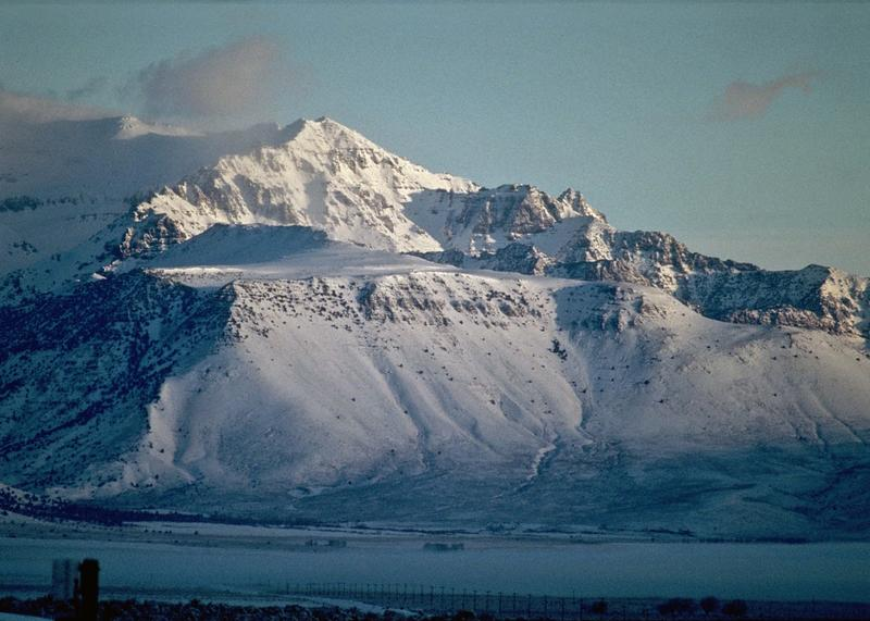 Southeast face of Steens Mountain in winter; near Andrews, Oregon